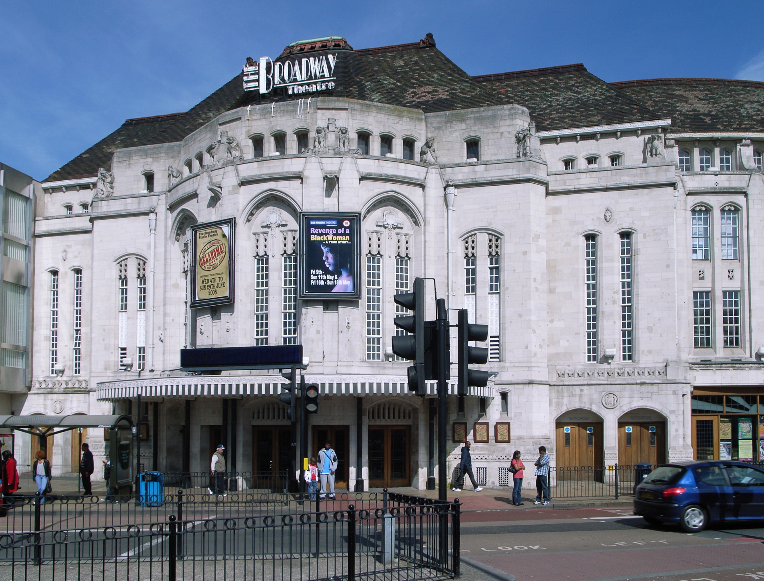 The Broadway Theatre, Catford is a theatre on Rushey Green, Catford in the London Borough of Lewisham. It is an outstanding example of Art Deco design.